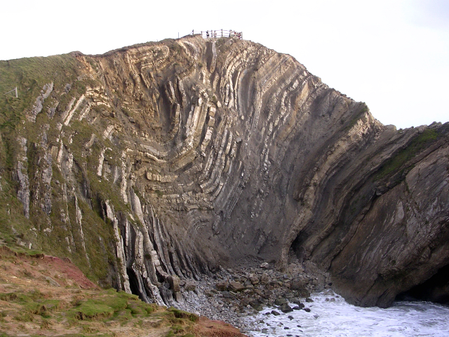 Stair Hole. Famous crumpled rock strata, immediately east of Lulworth Cove. The name is presumably a reference to the step-like feature in the strata.